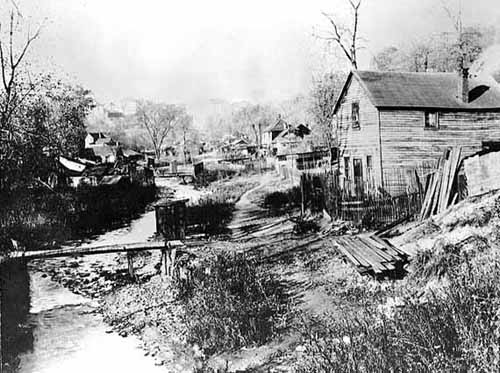 Swede Hollow, looking north from East Seventh Street before creek was enclosed